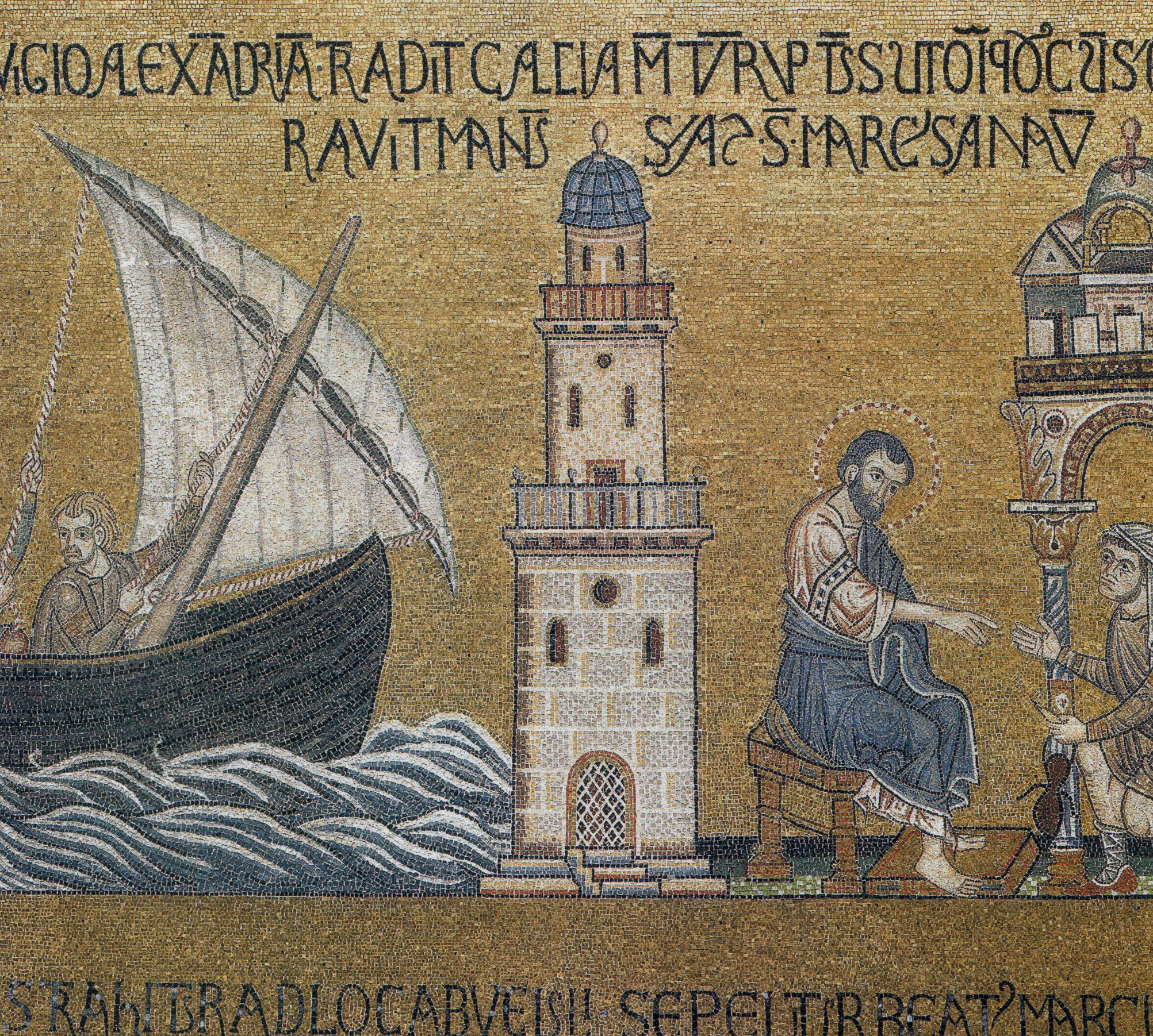 Thirteenth century mosaic depicting St Mark arriving in the city of Alexandria.